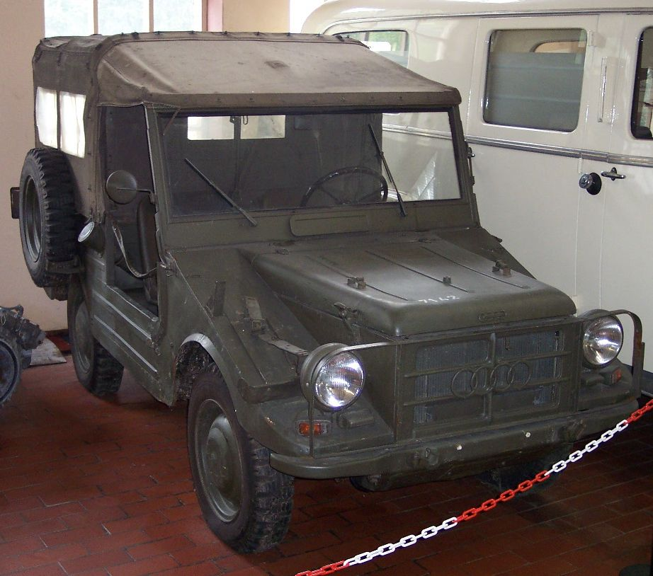 DKW Munga , own picture